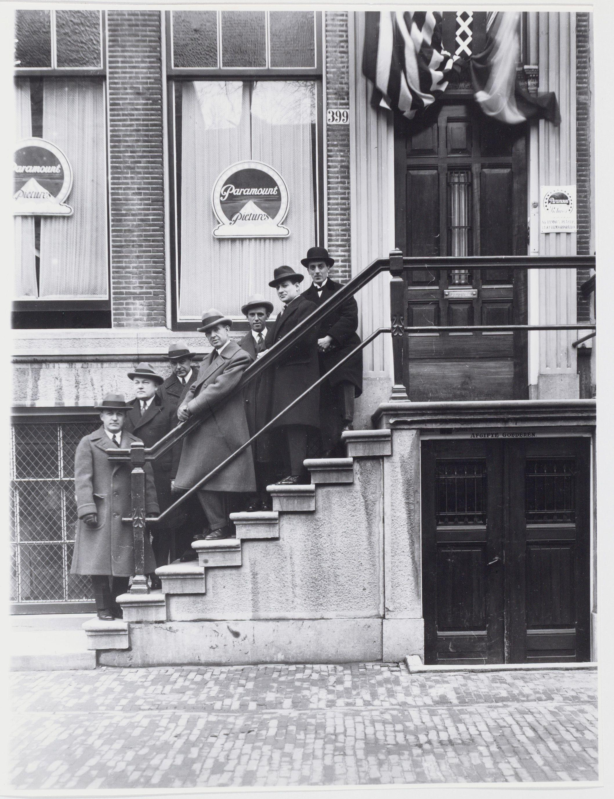 Photograph of the staff of Paramount Amsterdam by Jacob Merkelbach (1877-1942)